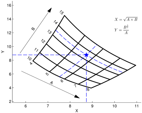 A four variable carpet plot showing interpolation of intermediate values.